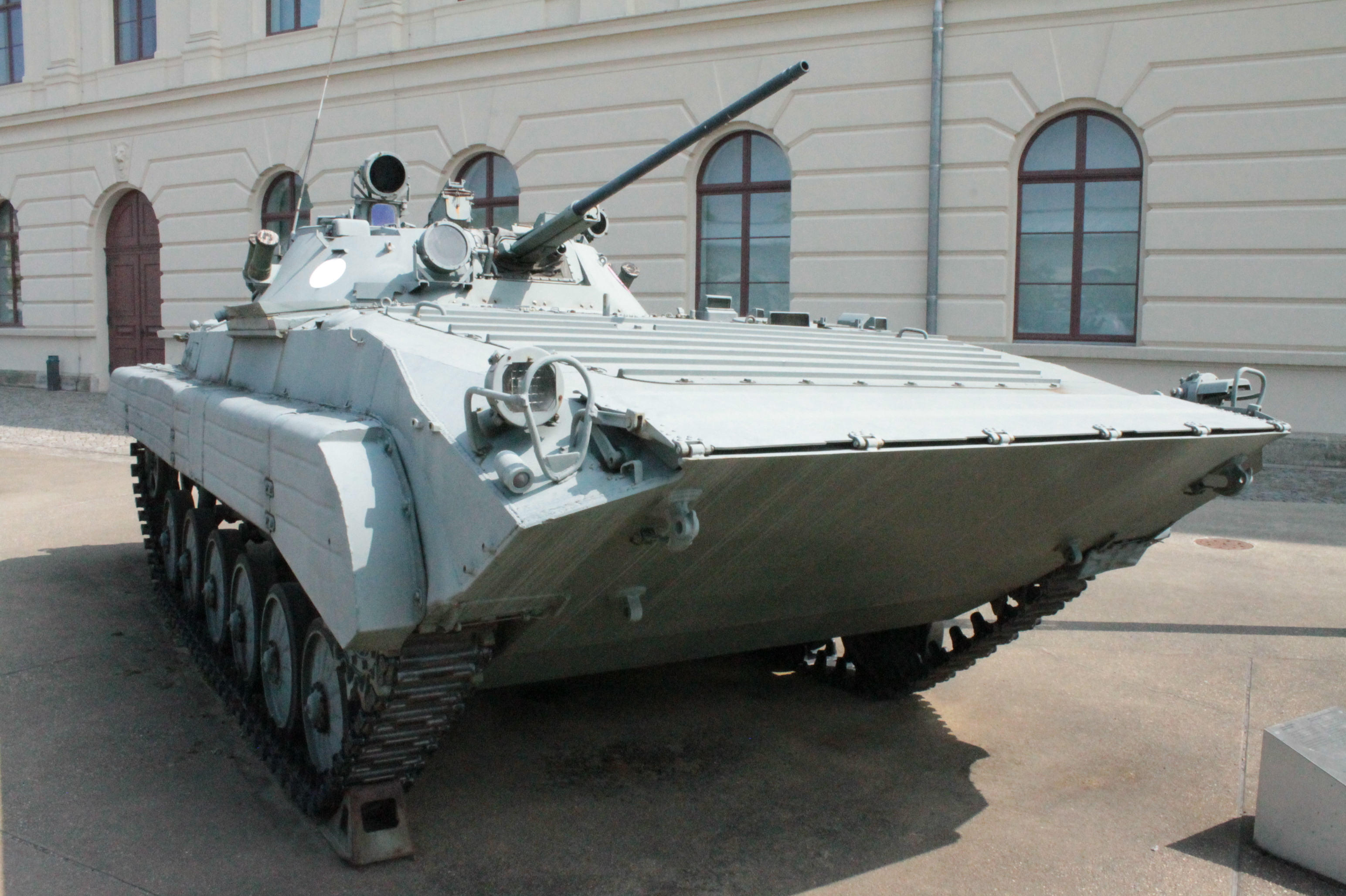 BMP-2 from 1983, Bundeswehr Military History Museum, Dresden